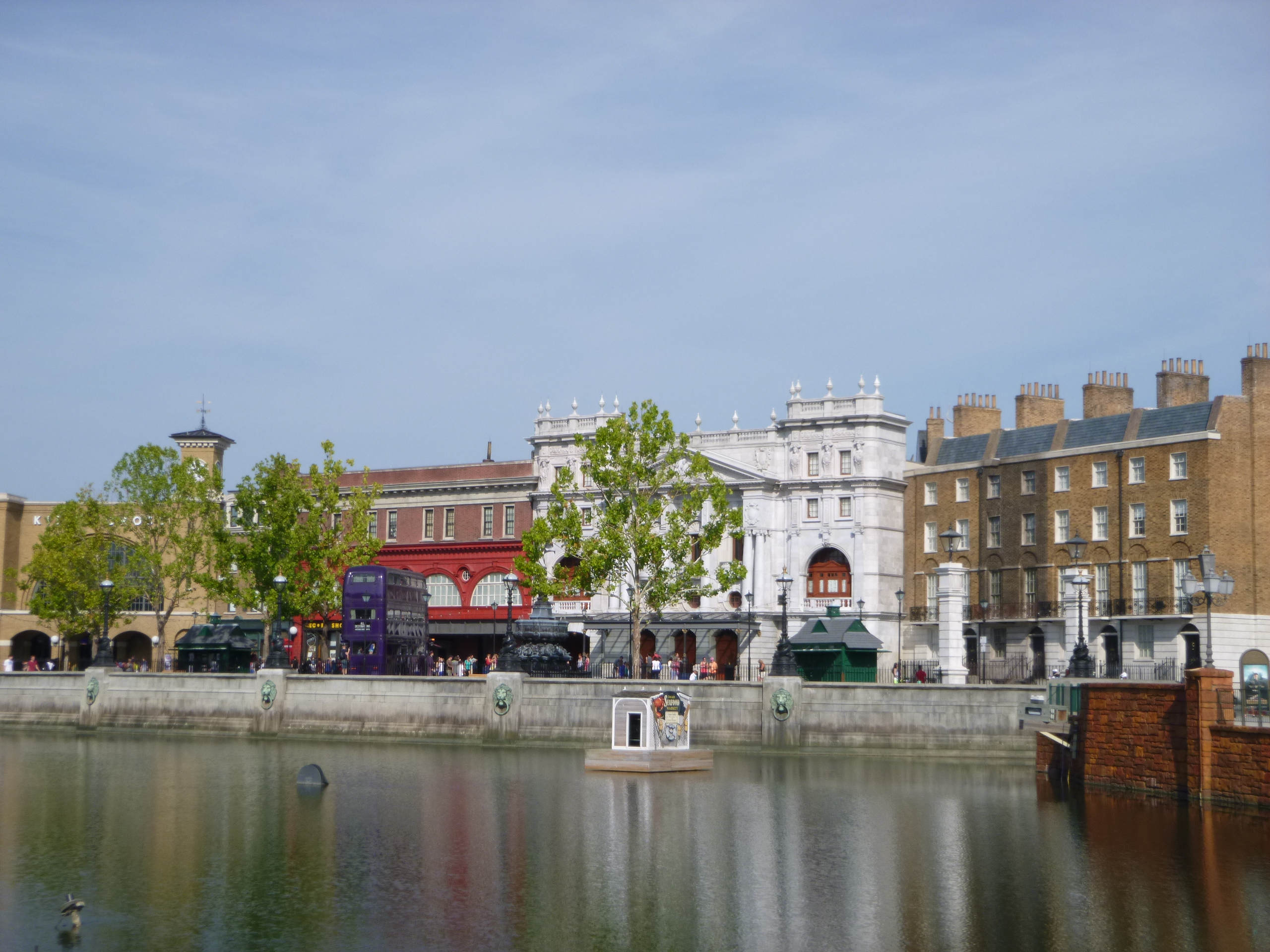 London waterfront, Universal Studios Florida